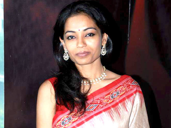 Swati Sen (Imtiaz Ali kidnapped and trapped as a groom to promote film Antardwand)